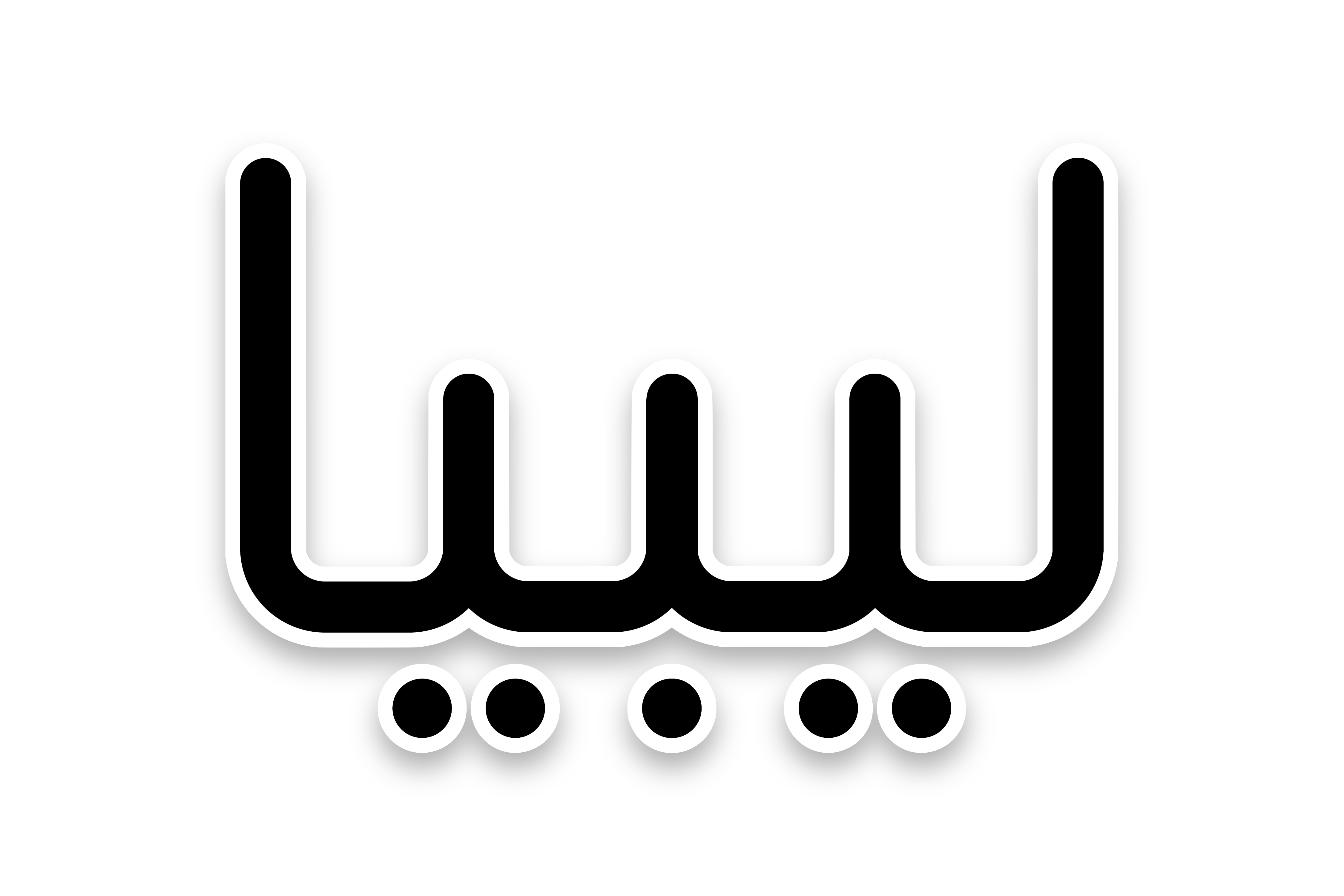 Ambigram ليبيا (Libya, in Arabic). Mirror symmetry (vertical axis).